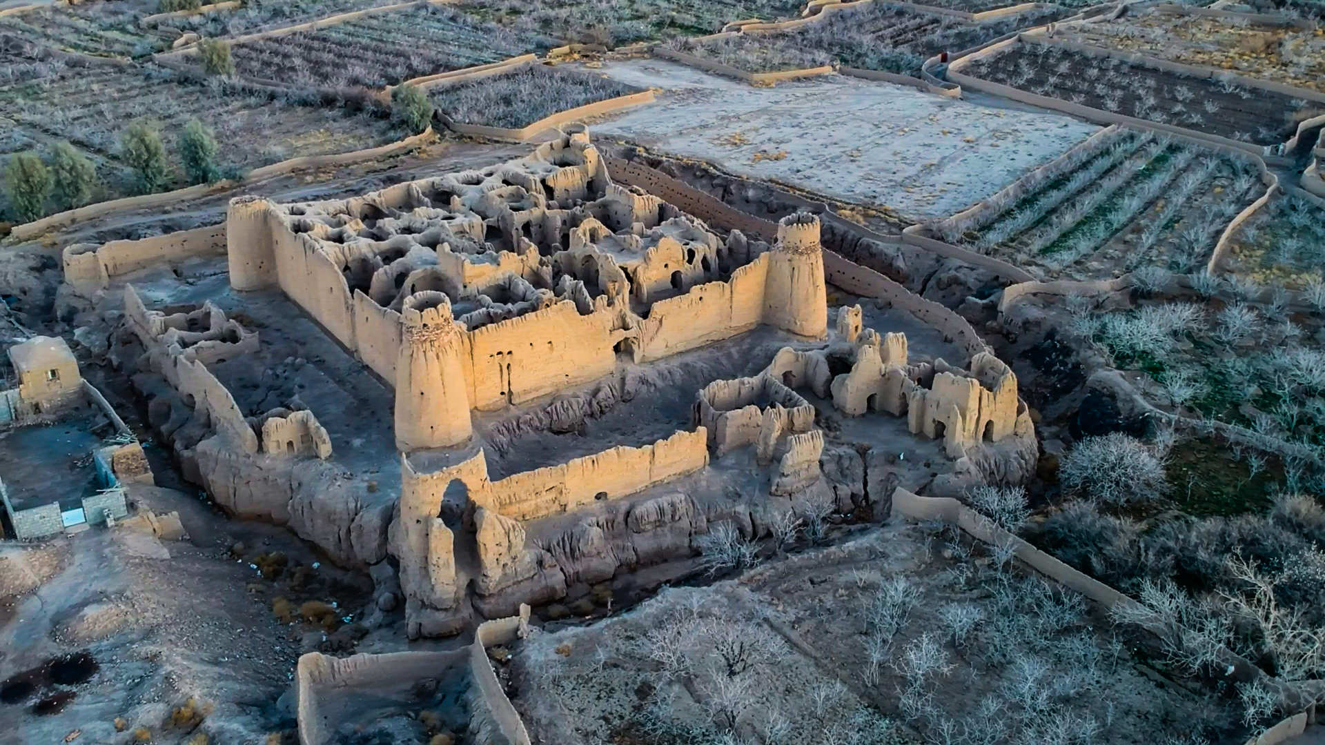 The old castle dates back to about 500 years ago (Safavid era). This castle is located in Shabjareh village in Zarand city of Kerman. The castle has thick walls and four tall towers surrounded by a wide moat. Behind the walls there is an open space for hand-to-hand combat, and in the middle there are huge walls with four other tall towers. The inner four quarters are probably the habitat of the properties, and the surroundings are the place of other activities to meet ordinary people and guests. Аҧсшәа: قدمت قلعه کهنه مربوط به حدود ۵۰۰ سال قبل (دوران صفویه) است. این قلعه در روستای شعبجره در شهرستان زرند کرمان واقع شده است. این قلعه دارای دیوارهایی ستبر و چهاربرج رفیع بوده که خندقی فراخ آن را احاطه کرده است. در پشت دیوارها فضایی باز برای جنگ تن به تن وجود دارد و در وسط آن نیز دیوارهایی عظیم با چهار برج بلند دیگر وجود دارد. بوده است. چهاربرج داخلی احتمالاً محل زندگی خواص بوده و اطراف نیز محل فعالیت های دیگر نظیر دیدار با افراد و مهمانان عادی.